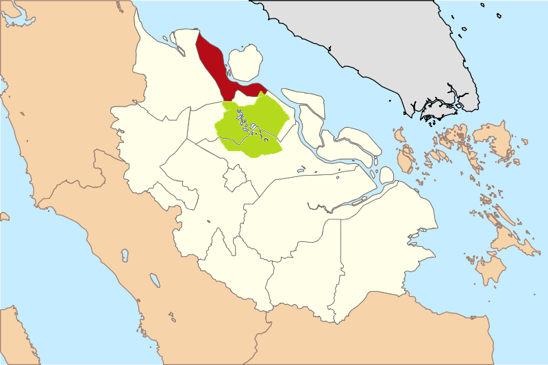 Location of Cagar Biosfer Giam Siak Kecil Bukit Batu, aka Bukit Batu Biosphere Reserve